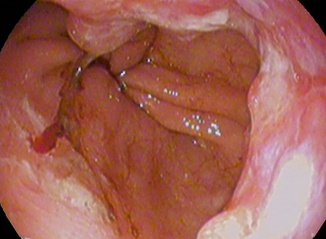 Esophageal cancer(lower part) ; Barrettʼs cancer 81y.o. Female. Japanese. short-segment-BE. She died a month later. adenocarcinoma(poor;signet-ringcell)